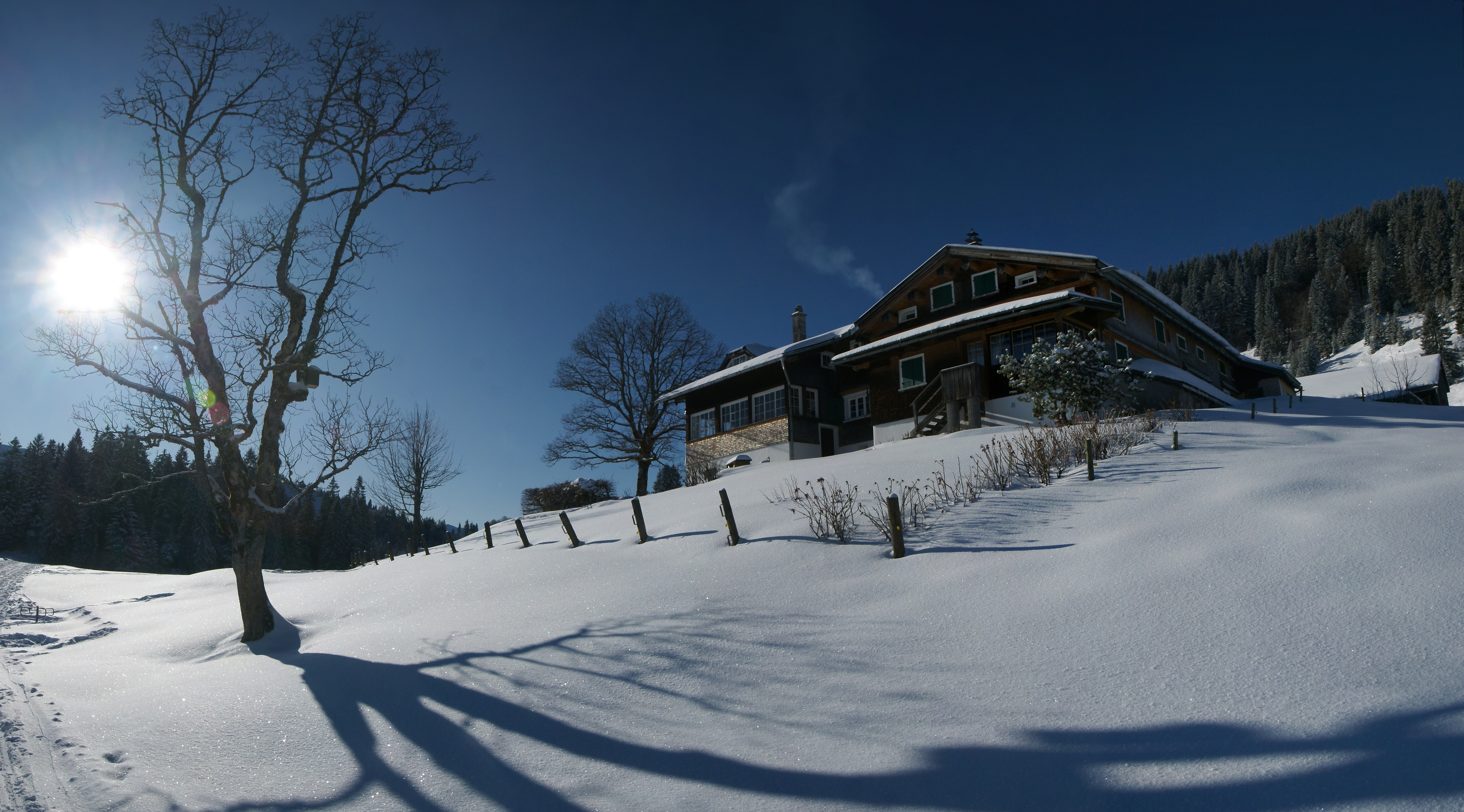 panorama on the Hochälpelealpe in Schwarzenberg. Here leads to about 1.200 m the way of Bödele by the Lustenauer hut.